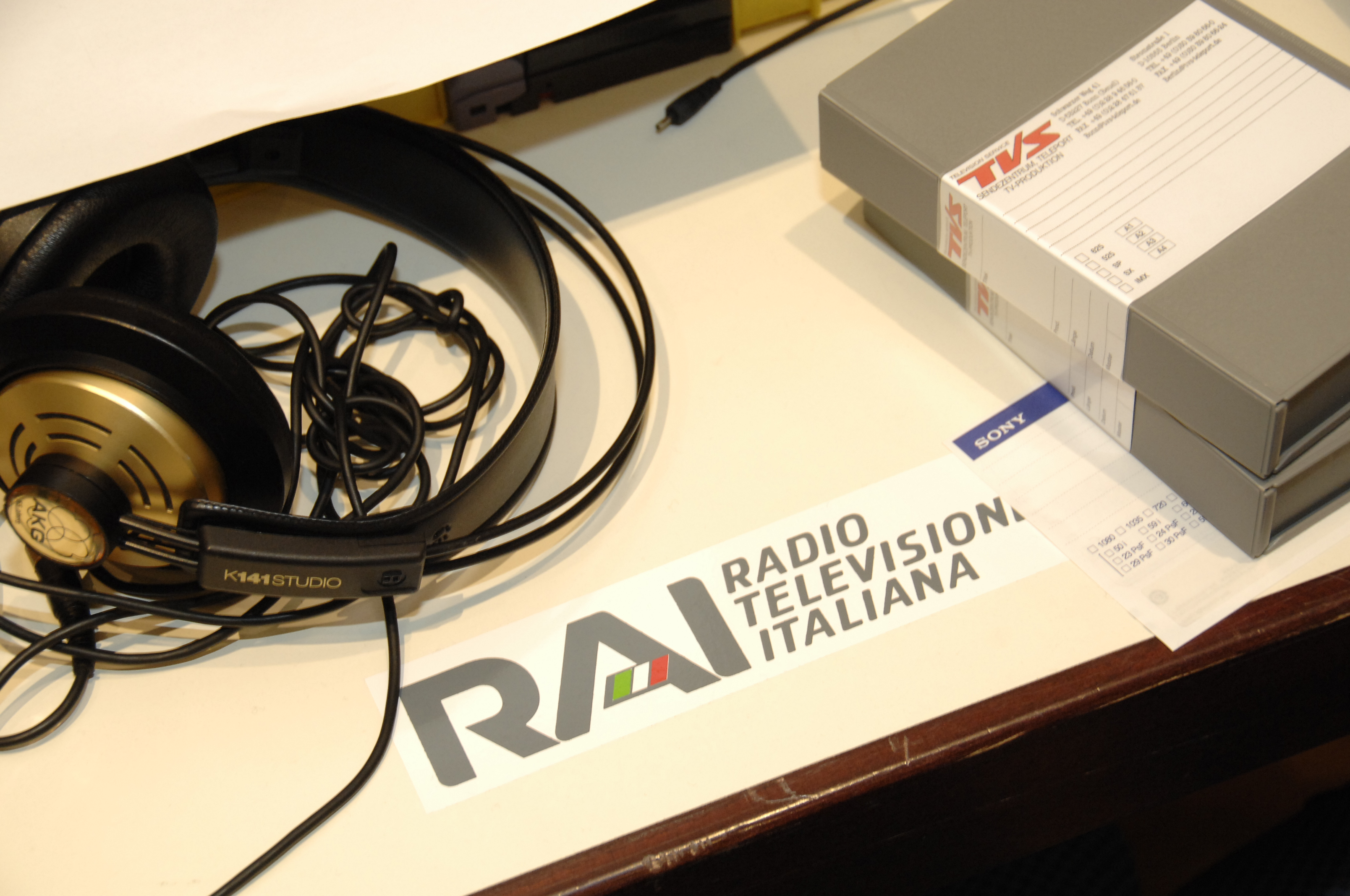 EPP Congress Bonn